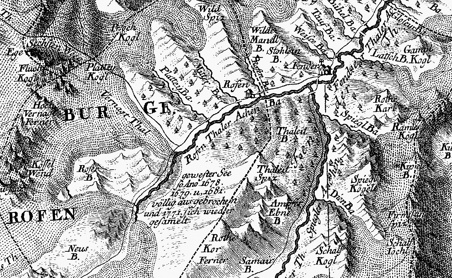 Atlas Tyrolensis Detail